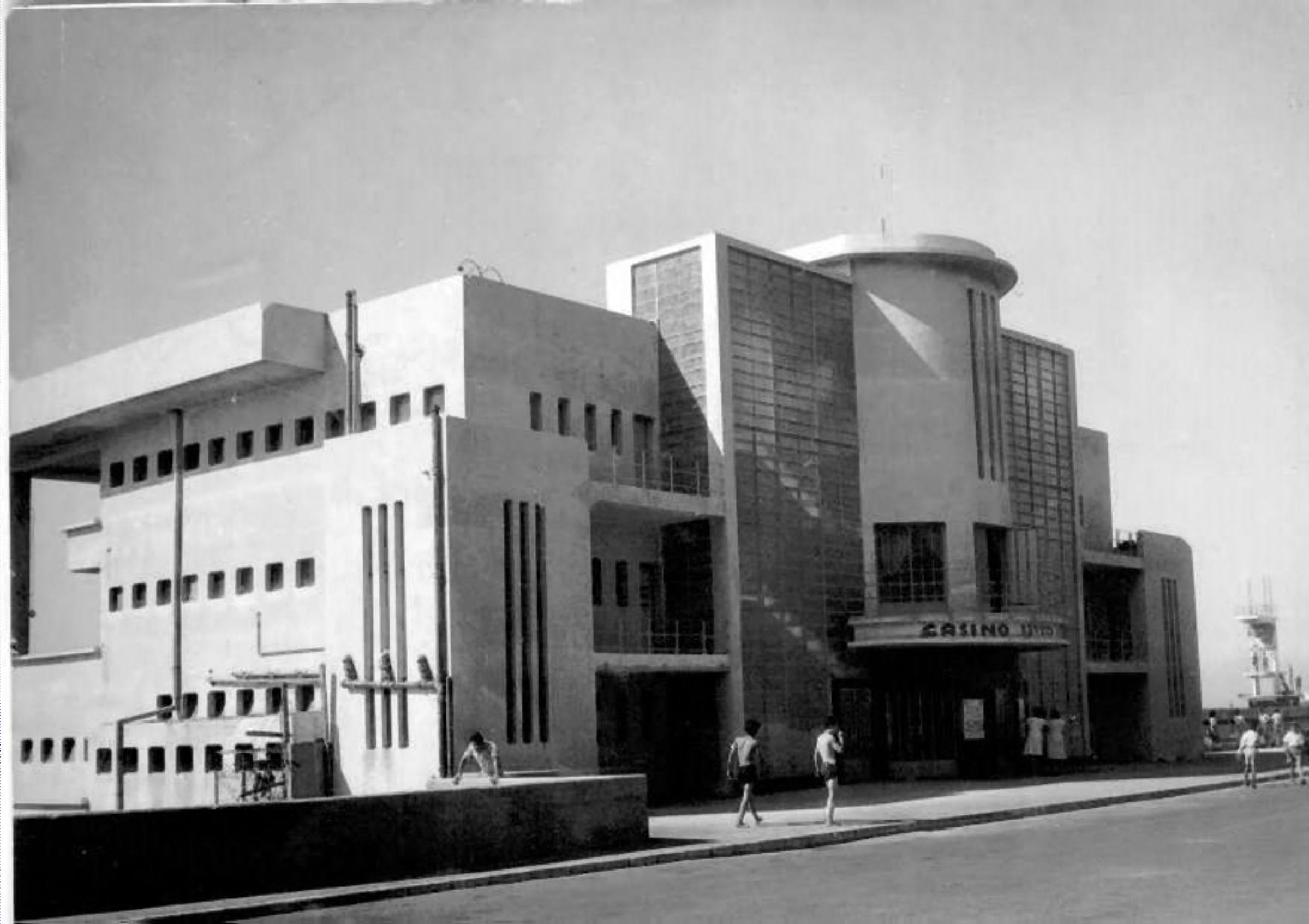 The Casino entertainment center and swimming pool (1947) — in Bat Galim, Haifa. A landmark building on the Bat Galim promenade housed a cafe patronized by British officers during the British Mandate era, though it was never used for gambling.